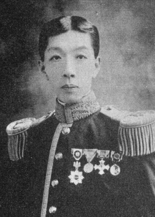 Yukikata Konoike